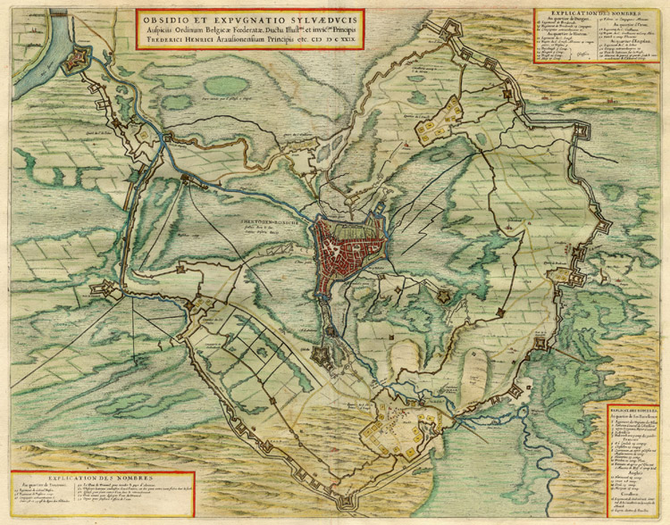 title=Obsidio et Expugnatio Sylvaeducis;size=41x53